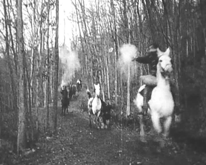 Screenshot from The Great Train Robbery (1903)